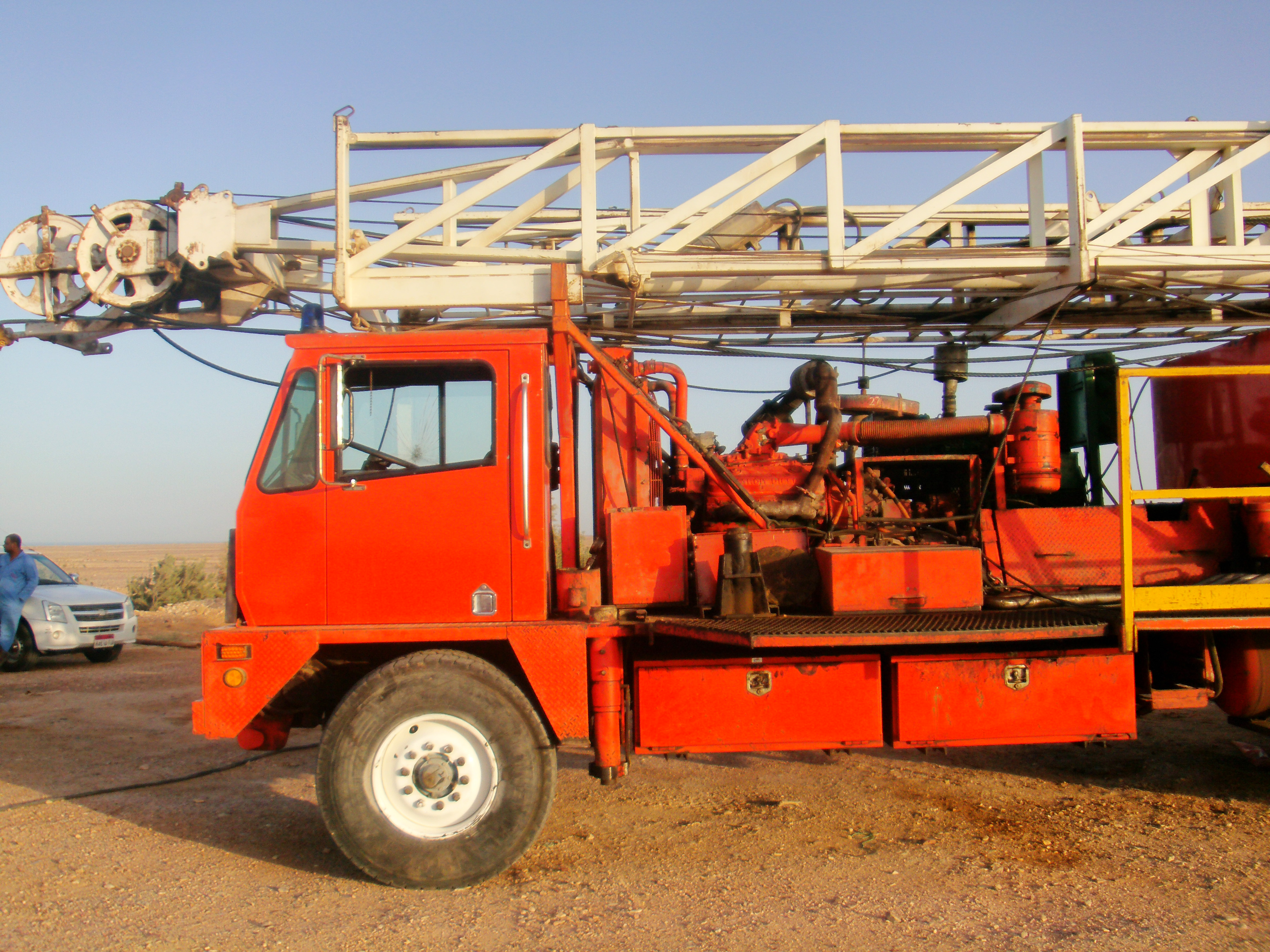 A work Over rig in Ras Ghareb, Egypt